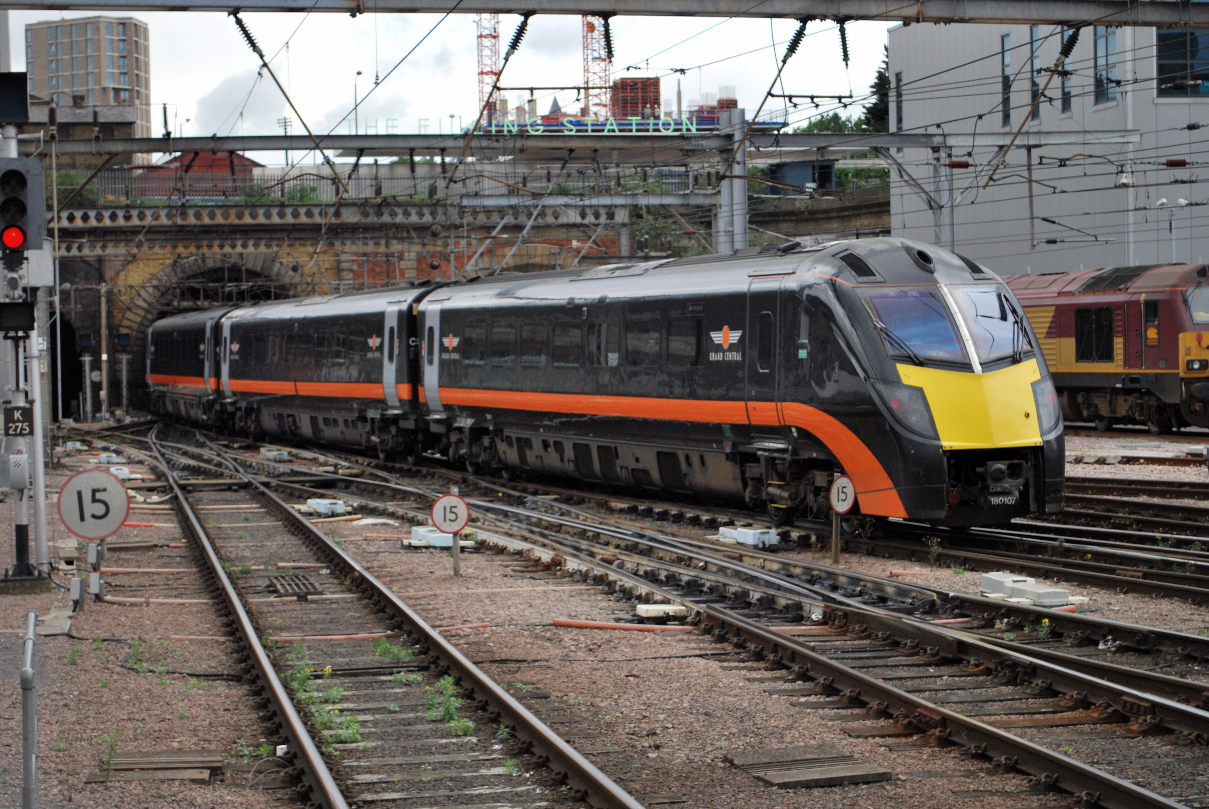 Alstom (Birmingham) Class 180 "Coradia" (ex-"Adelante") 5-car dmu No.180 107 "Hart of the North" of Grand Central in its livery arriving at King's Cross on a service from Bradford, 08/12.